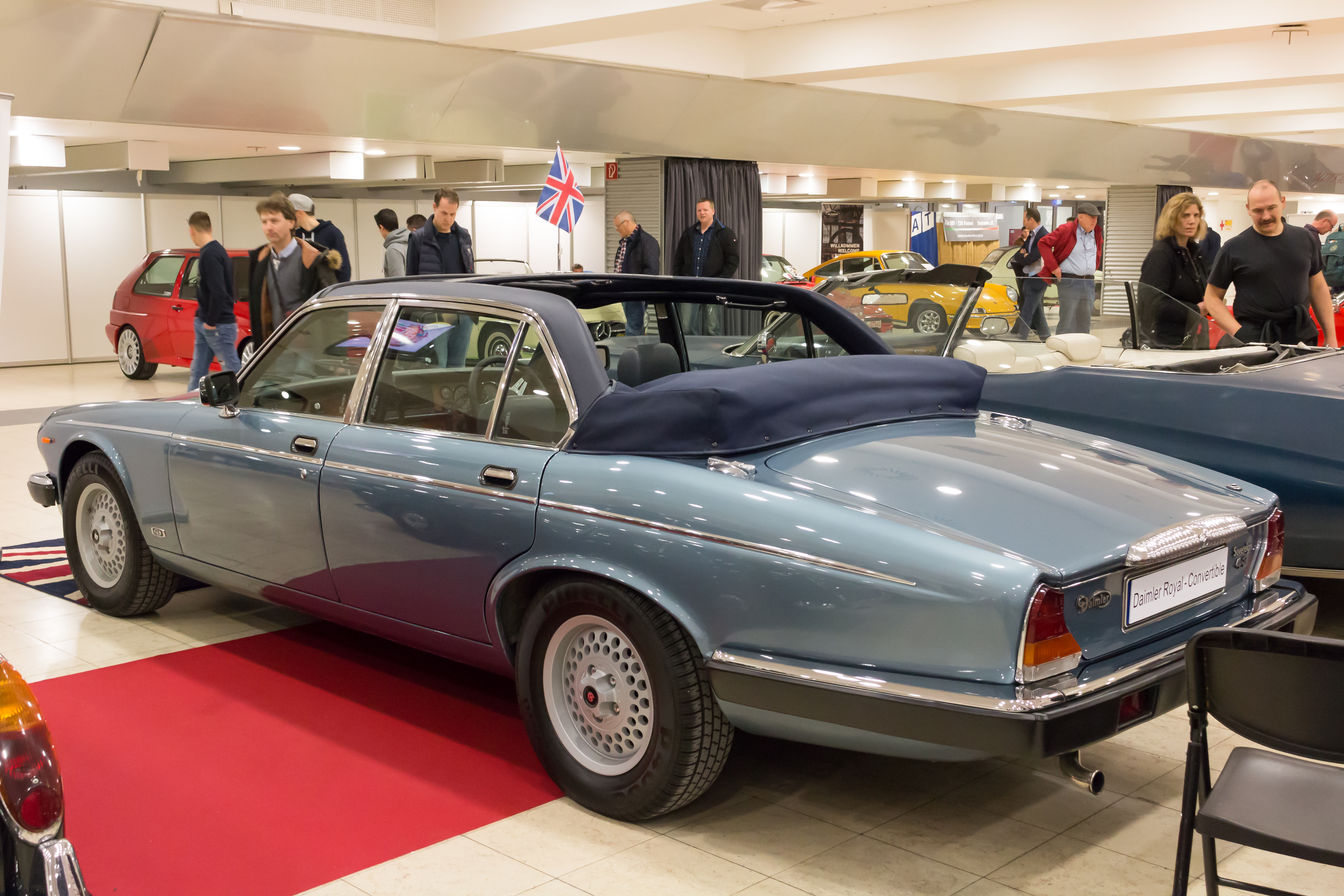 Techno Classica 2018, Essen